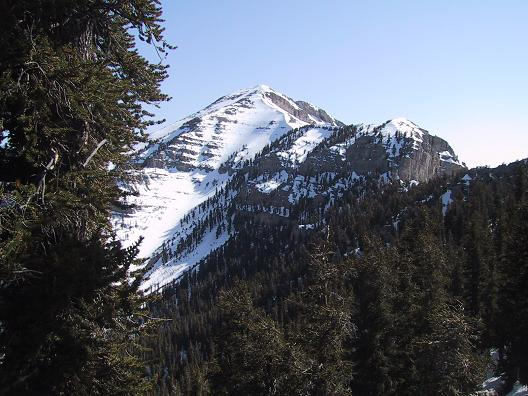 Charleston Peak, from North Loop trail 04/26/2004